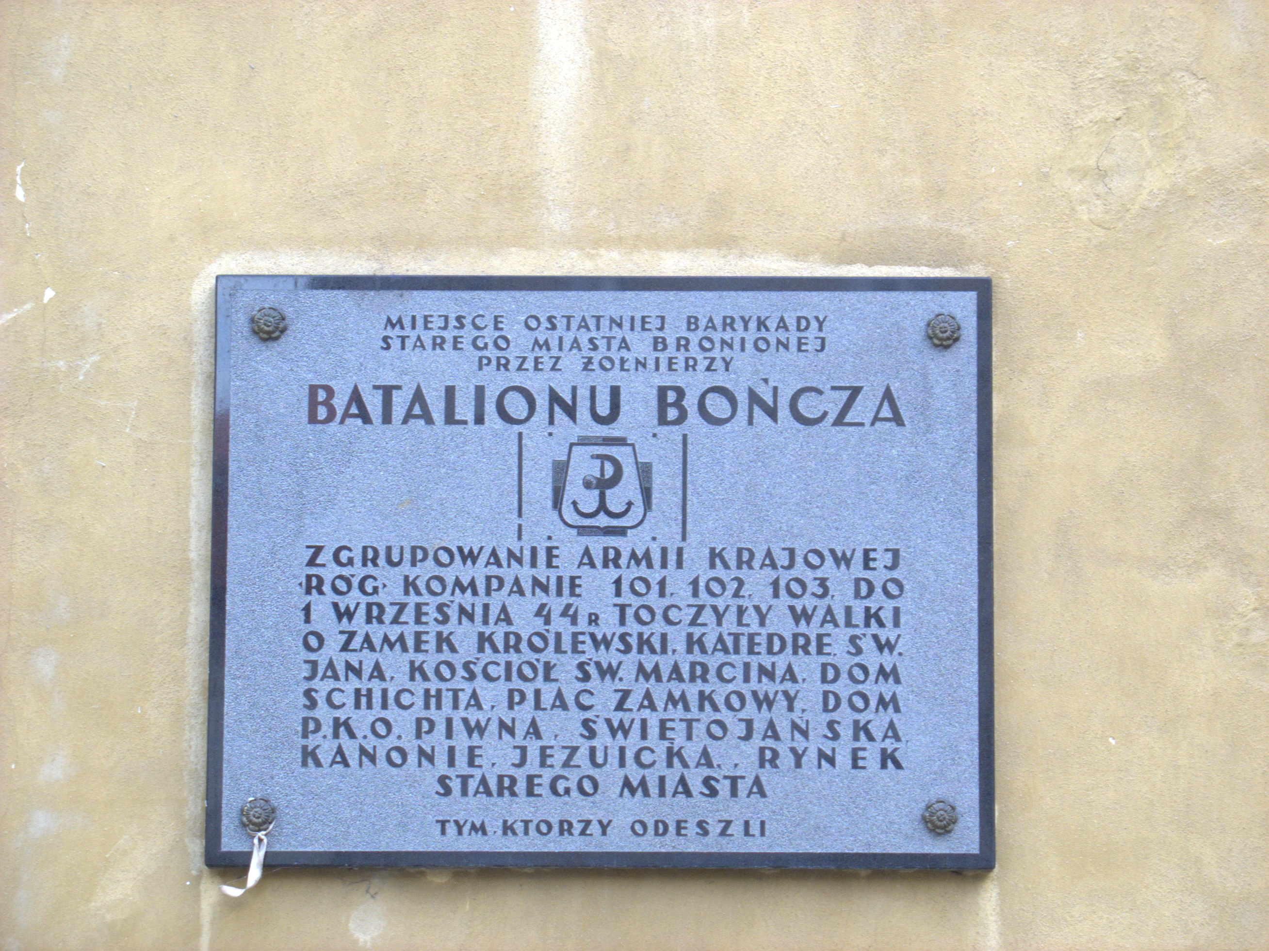 Warsaw Uprising plaques.